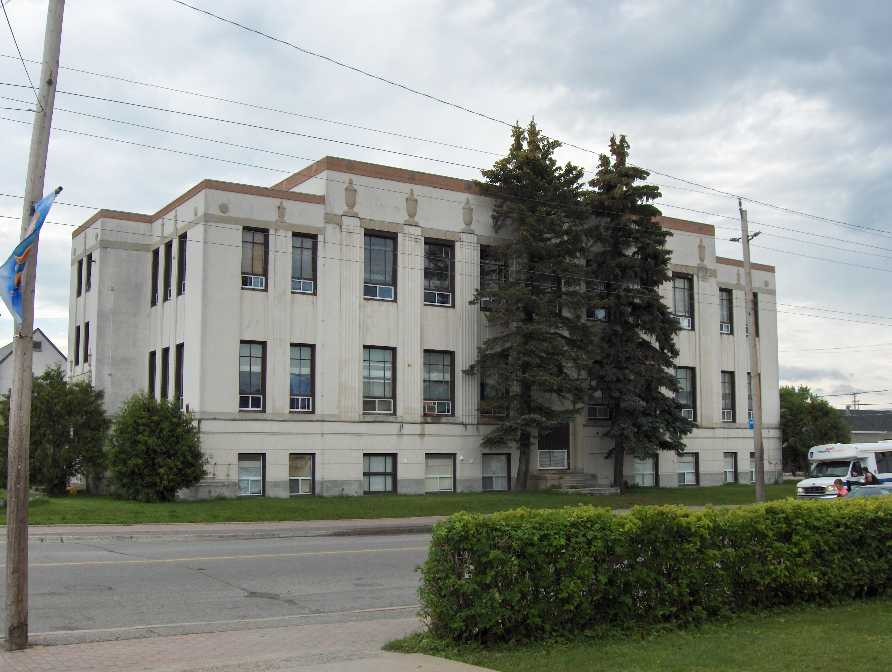 Author - John Monaghan Source - HP Photosmart R717 Category:Buildings and structures in Timmins